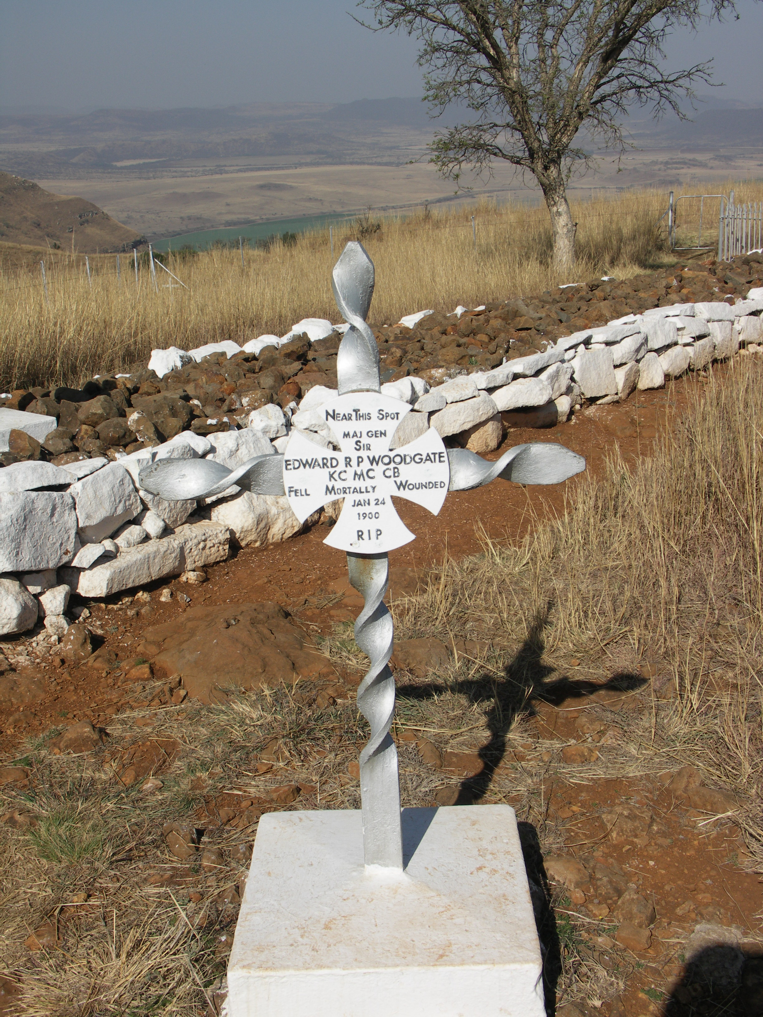 Memorial to Major General Sir Edward Woodgate on Spioenkop in South Africa Inscription reads Near this spot MAJ GEN SIR EDWARD R P WOODGATE KC MC CB Fell Mortally Wounded Jan 24 1900 R I P